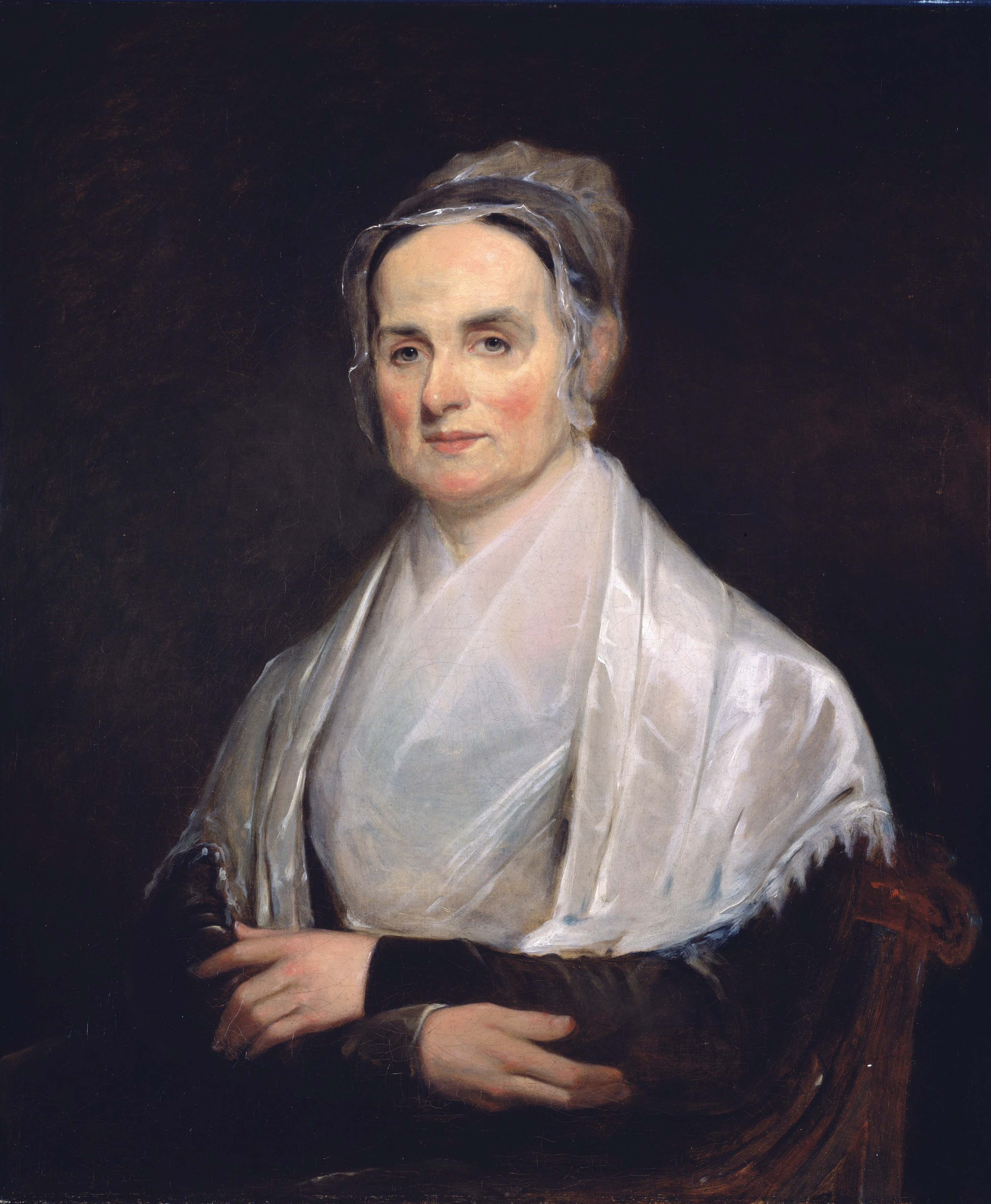 Portrait of Lucretia Mott (1793 - 1880), the proponent of women's rights. Exhibition Label Lucretia Mott was of the liberal wing of the Society of Friends (Quakers), and she received an early schooling in debate and oratory by traveling with her husband to Quaker meetings throughout the country. The Quakers were a major force in antislavery agitation, and Mott naturally gravitated to the issue, helping to found Philadelphia's Female Anti-Slavery Society. Mott held that women had a special position in the reform of society, and she soon began to consider women's rights as essential in furthering the reform platform. With Elizabeth Cady Stanton, she organized the Seneca Falls, New York, convention in 1848 that launched the women's civil rights movement in the United States. As she wrote: "Let woman then go on-not asking favors, but claiming as a right the removal of all hindrances to her elevation in the scale of being."